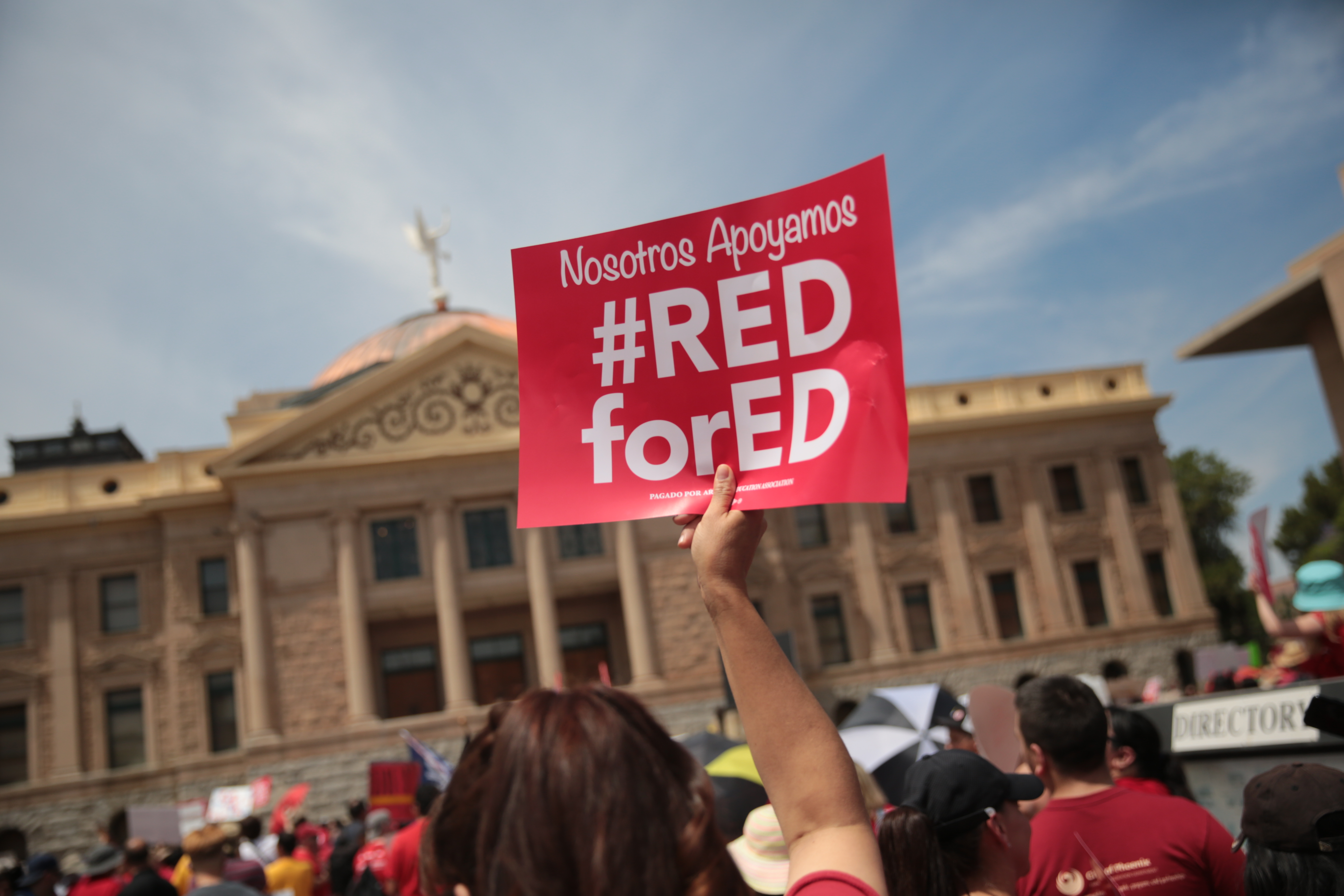 Photo by Gage Skidmore for Arizona Education Association Arizona teacher's strike and rally on April 26, 2018.